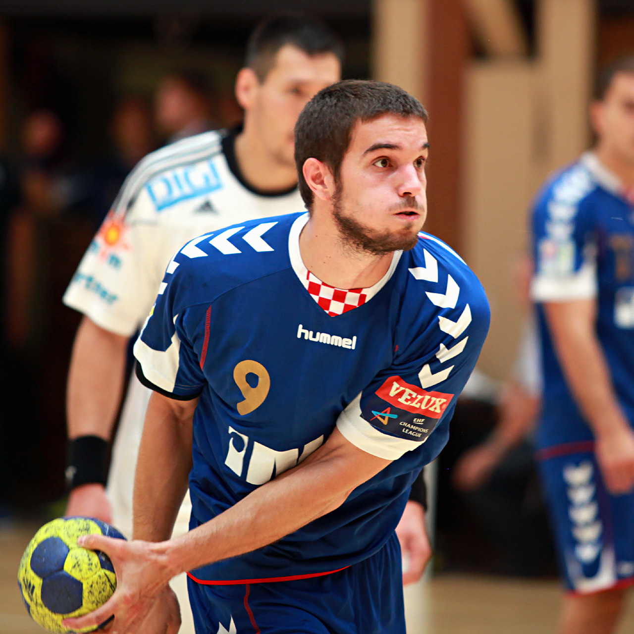 Jerko Matulić, on August 17th, 2012 in Ehingen (Germany), during the Sparkassen Cup (formerly known as Schlecker Cup).